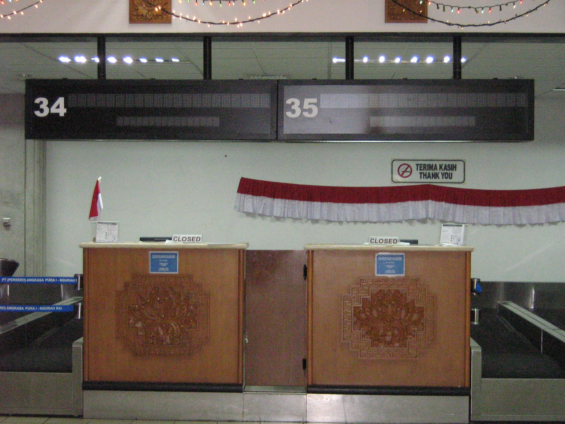 check-in-counter at Denpasar Airport